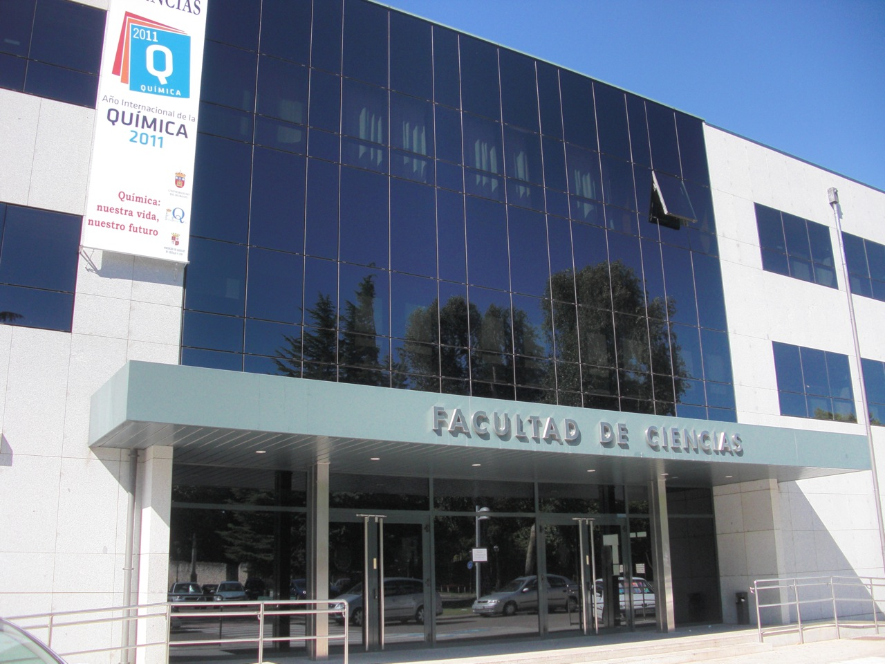 University of Burgos Science building